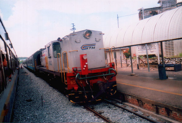 KTM Intercity